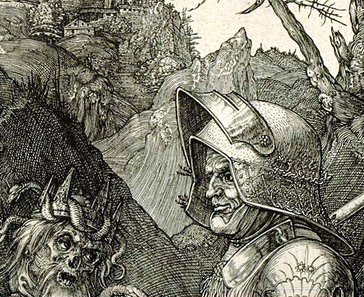 Detail from the engraving Knight, Death and Devil (1513)